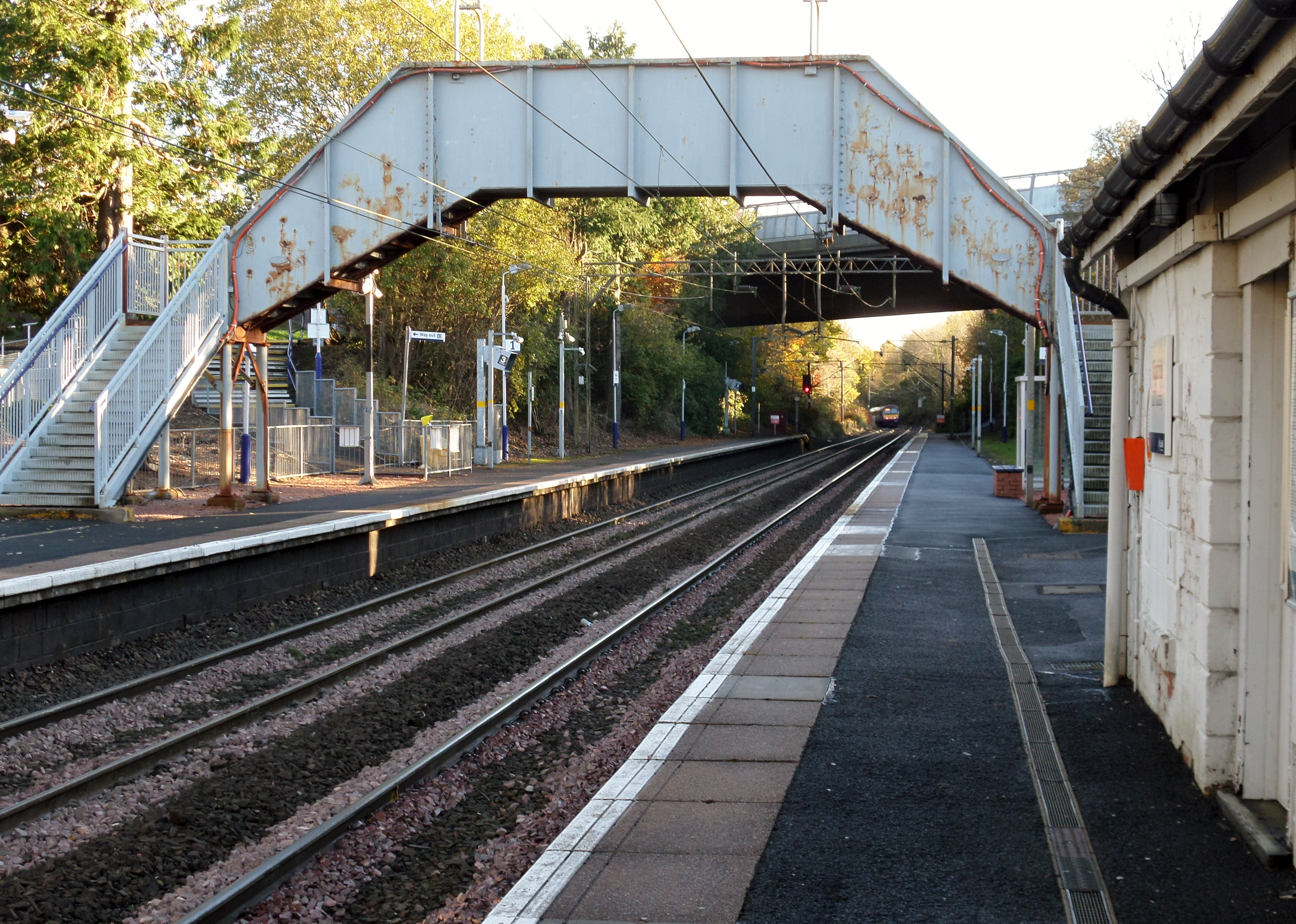 Kilpatrick railway station on the North Clyde Line, West Dumbarton, Scotland.